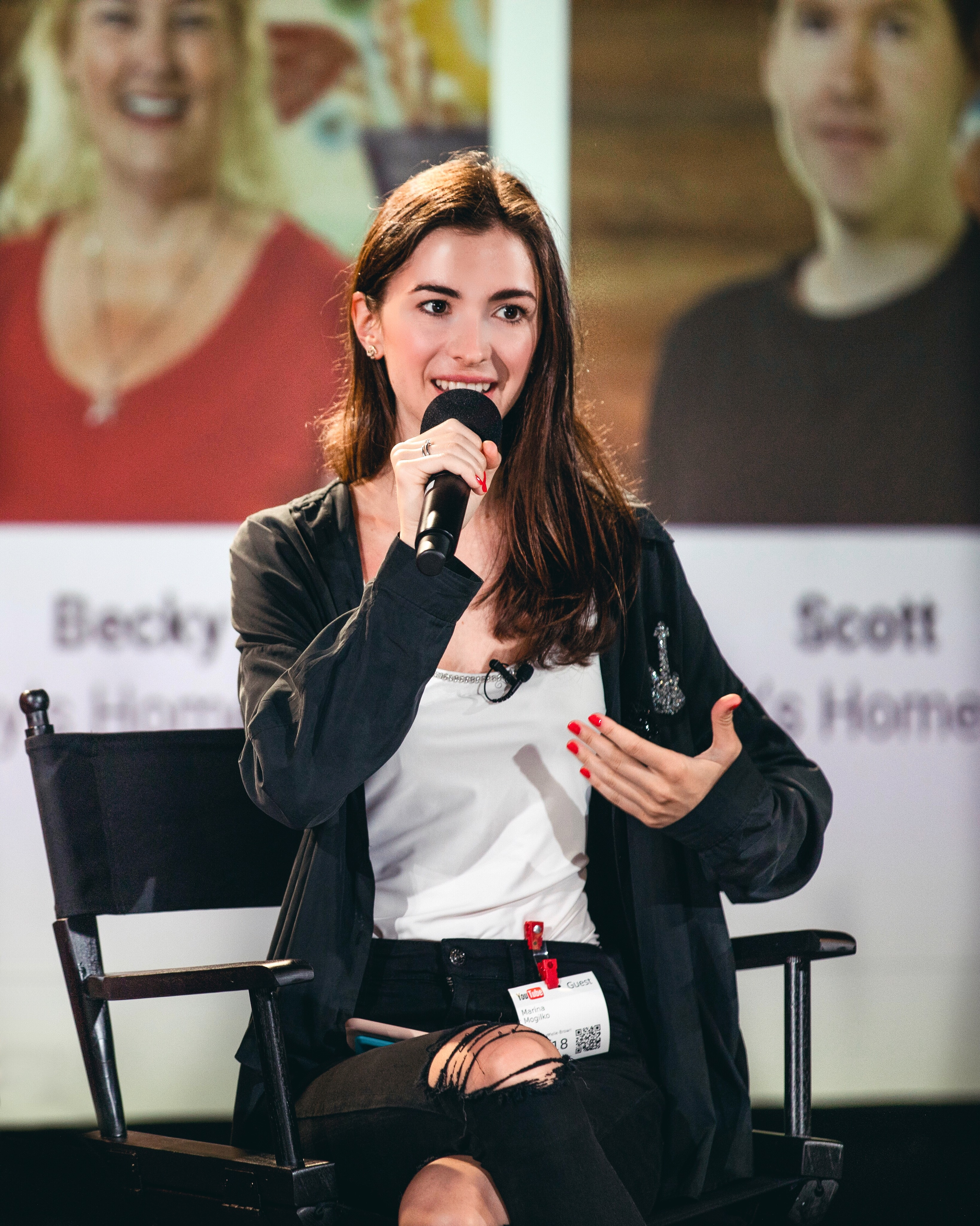 Marina Mogilko in YouTube Space, San Francisco